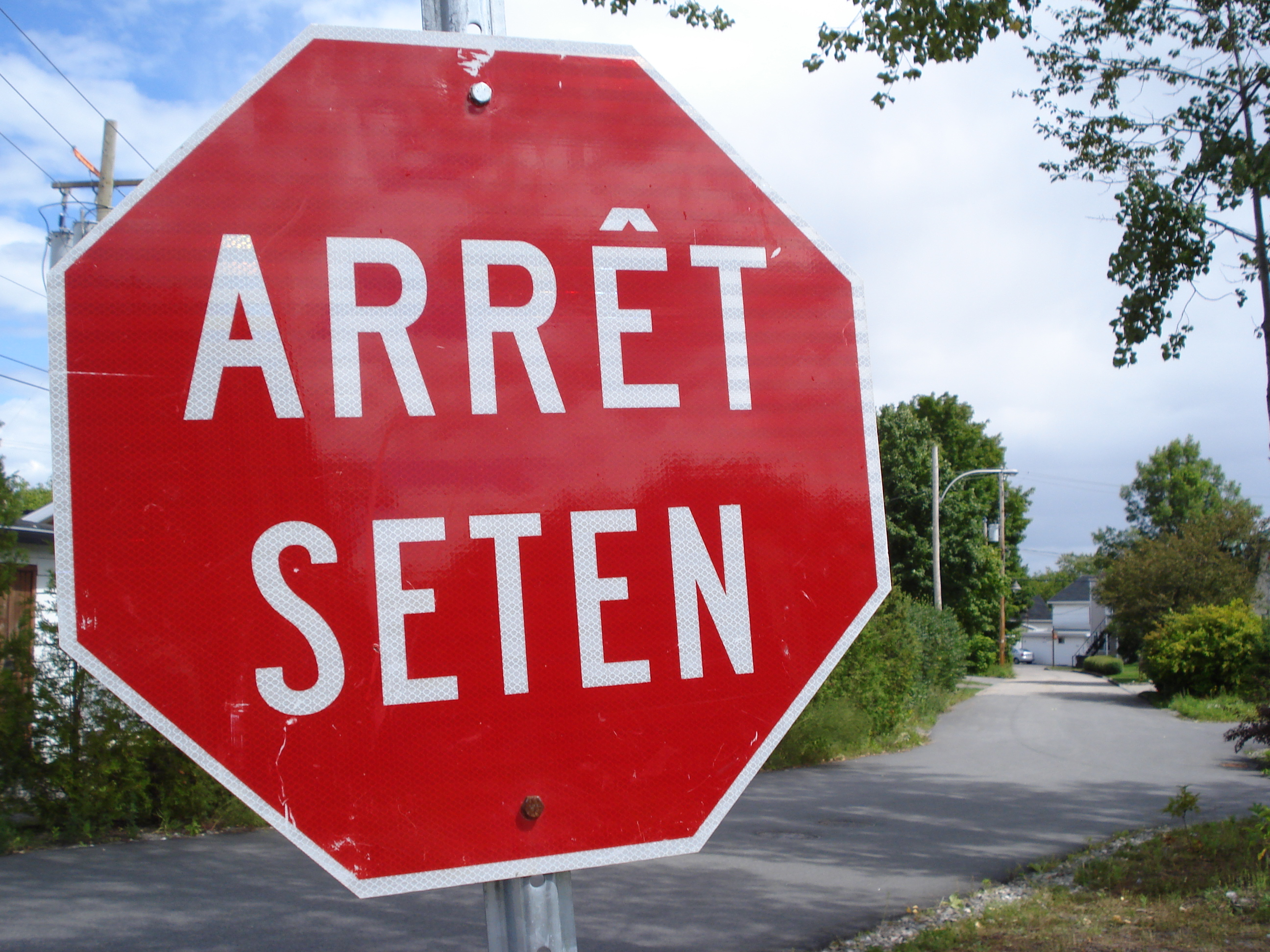 A stop sign in two languages, French and Wendat.